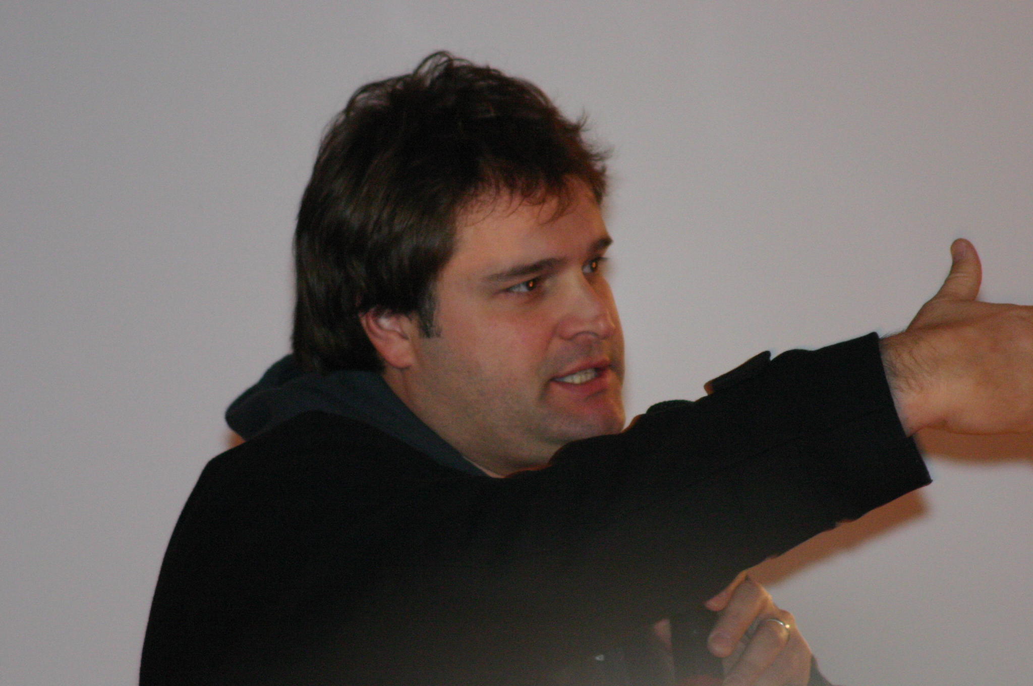 Peter DeLuise 2004-12-10 - GermanCityCon